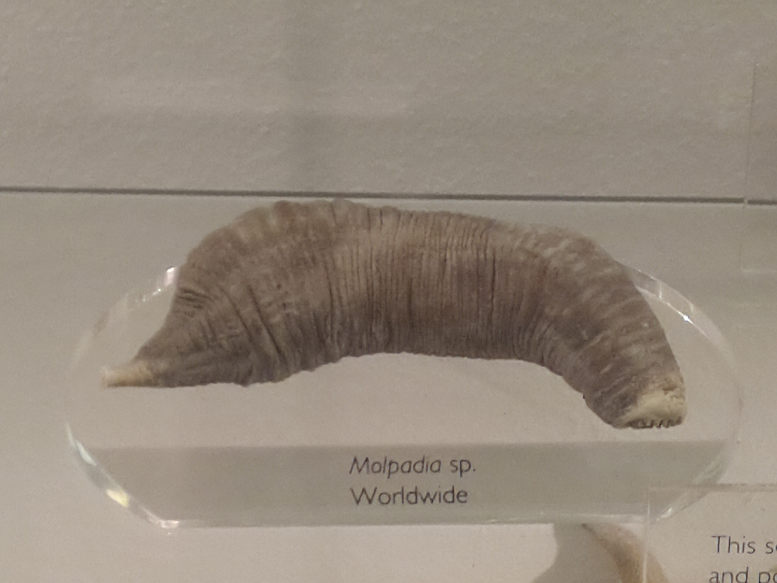 From the Marine Invertebrates Gallery at the Natural History Museum, London.